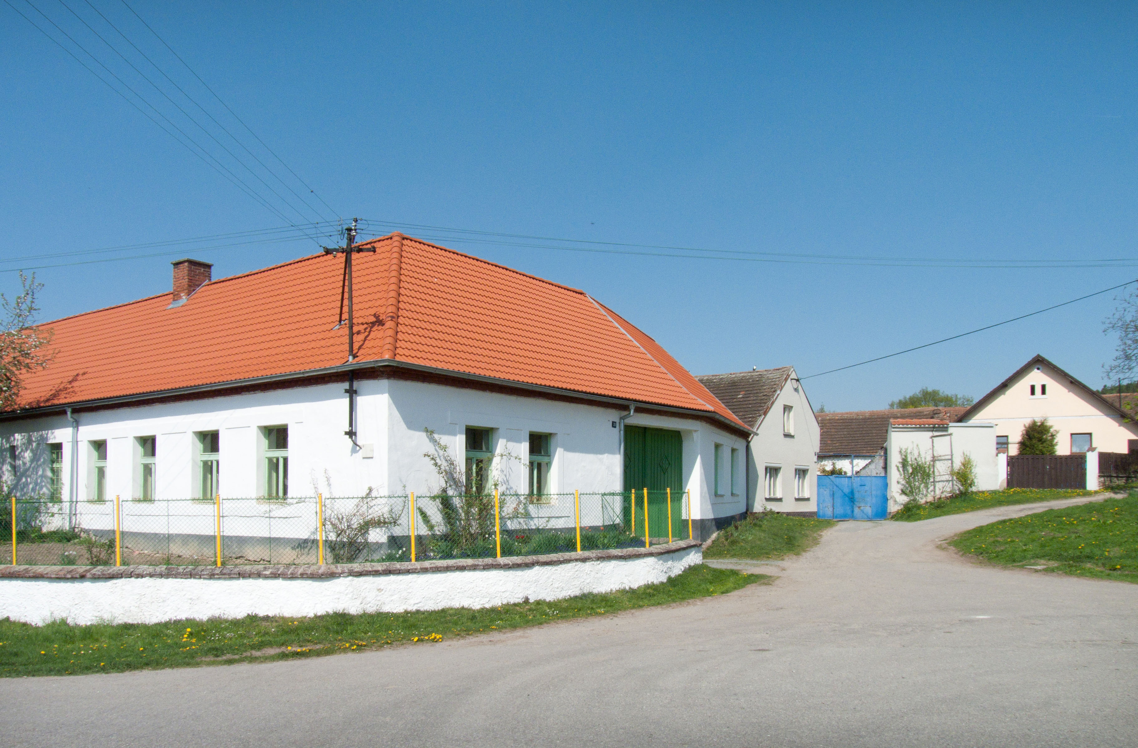 House No 20 in the village of Přední Zborovice, Strakonice District, Czech Republic. Česky: Dům č.p. 20 v obci Přední Zborovice v okrese Strakonice.